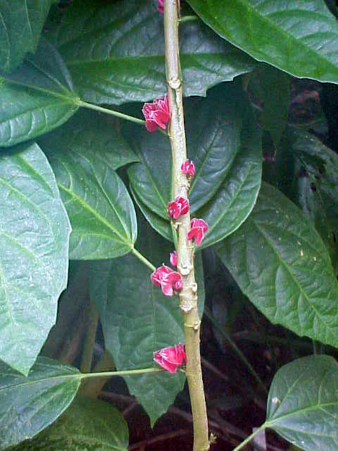 Species: Goethea cauliflora Family: Malvaceae Image No. 2